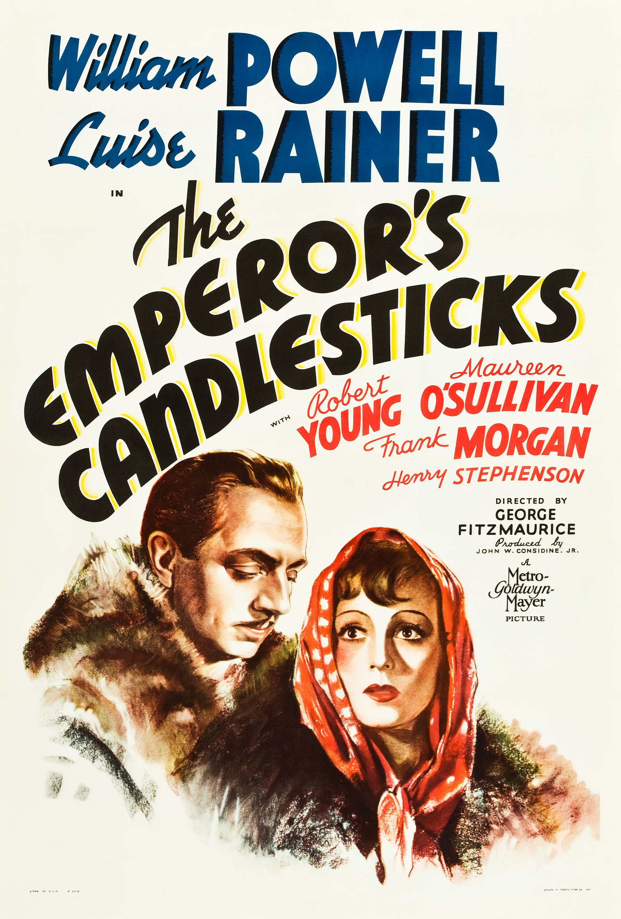 Film poster/lobby card for the 1937 film The Emperor's Candlesticks.